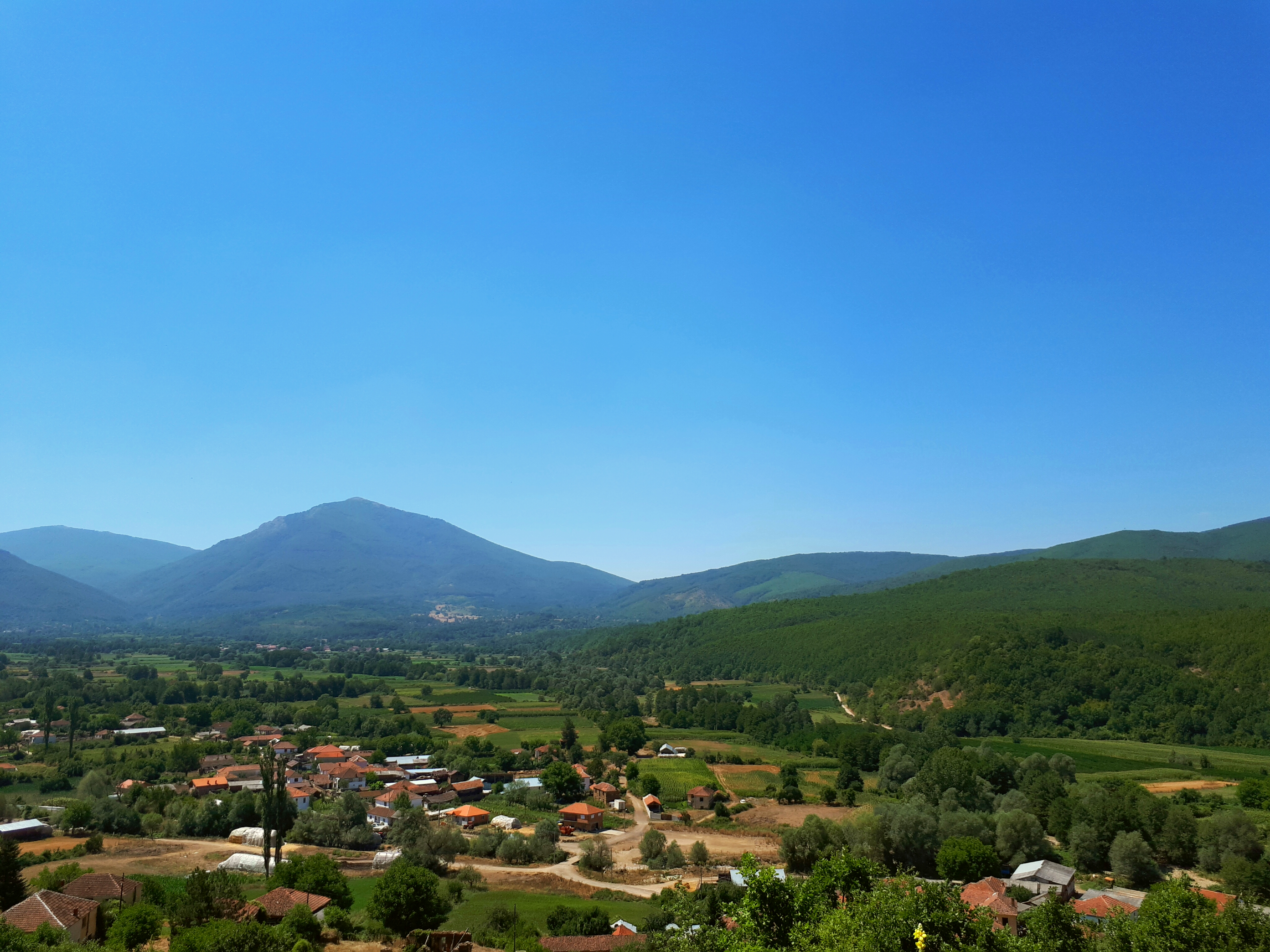 Part of the Veloexpedition in 2017